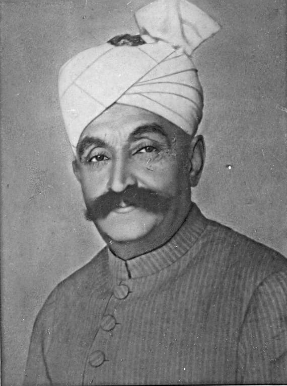 Abdul Majid Khan Tarin, OBE, c.1932